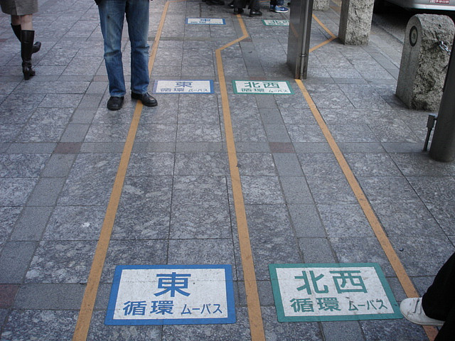 I thought these were cool. This lane is for blah blah blah.